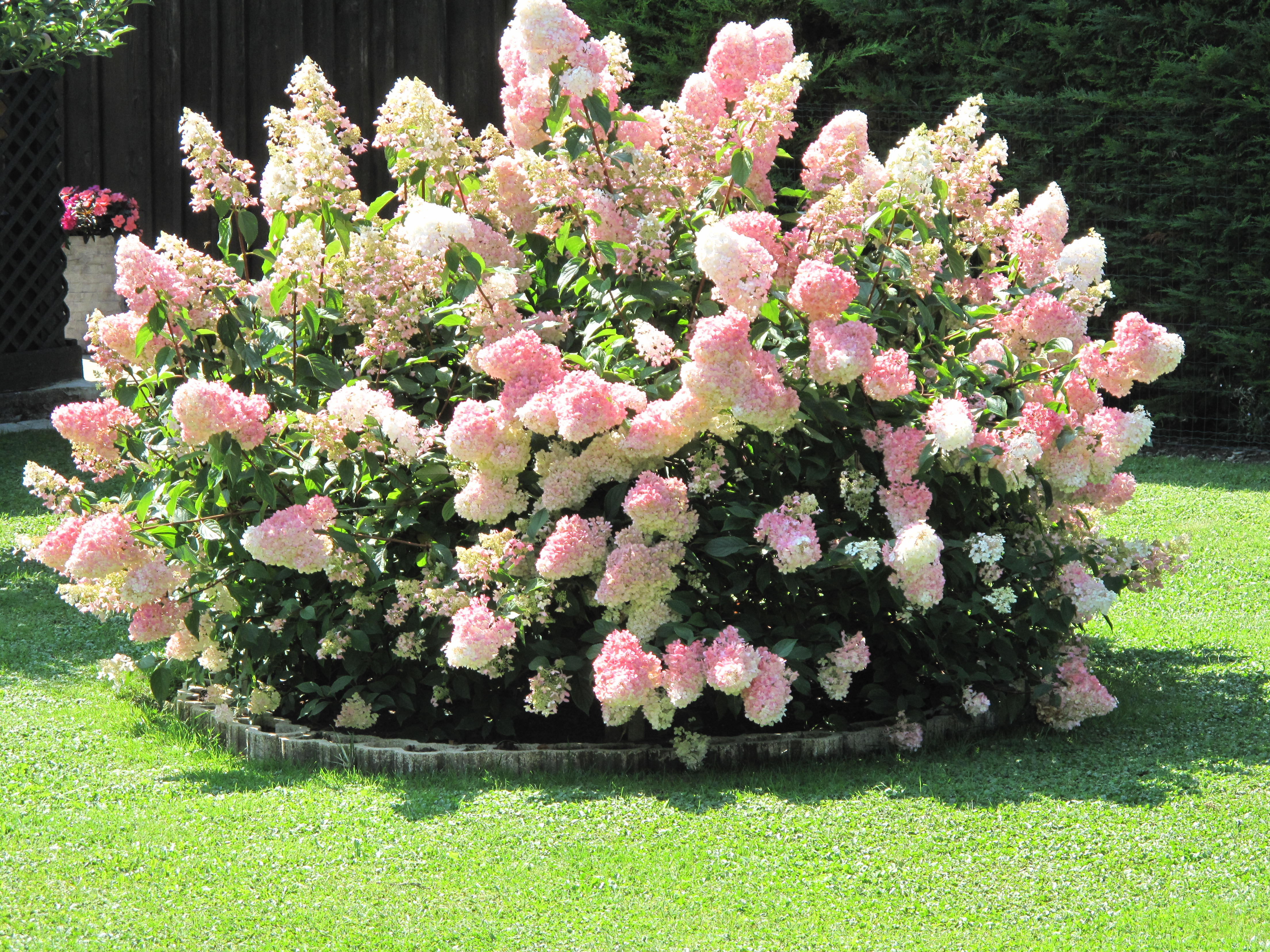 Lagestroemia indica in a garden of Samoëns (Haute-Savoie, France).